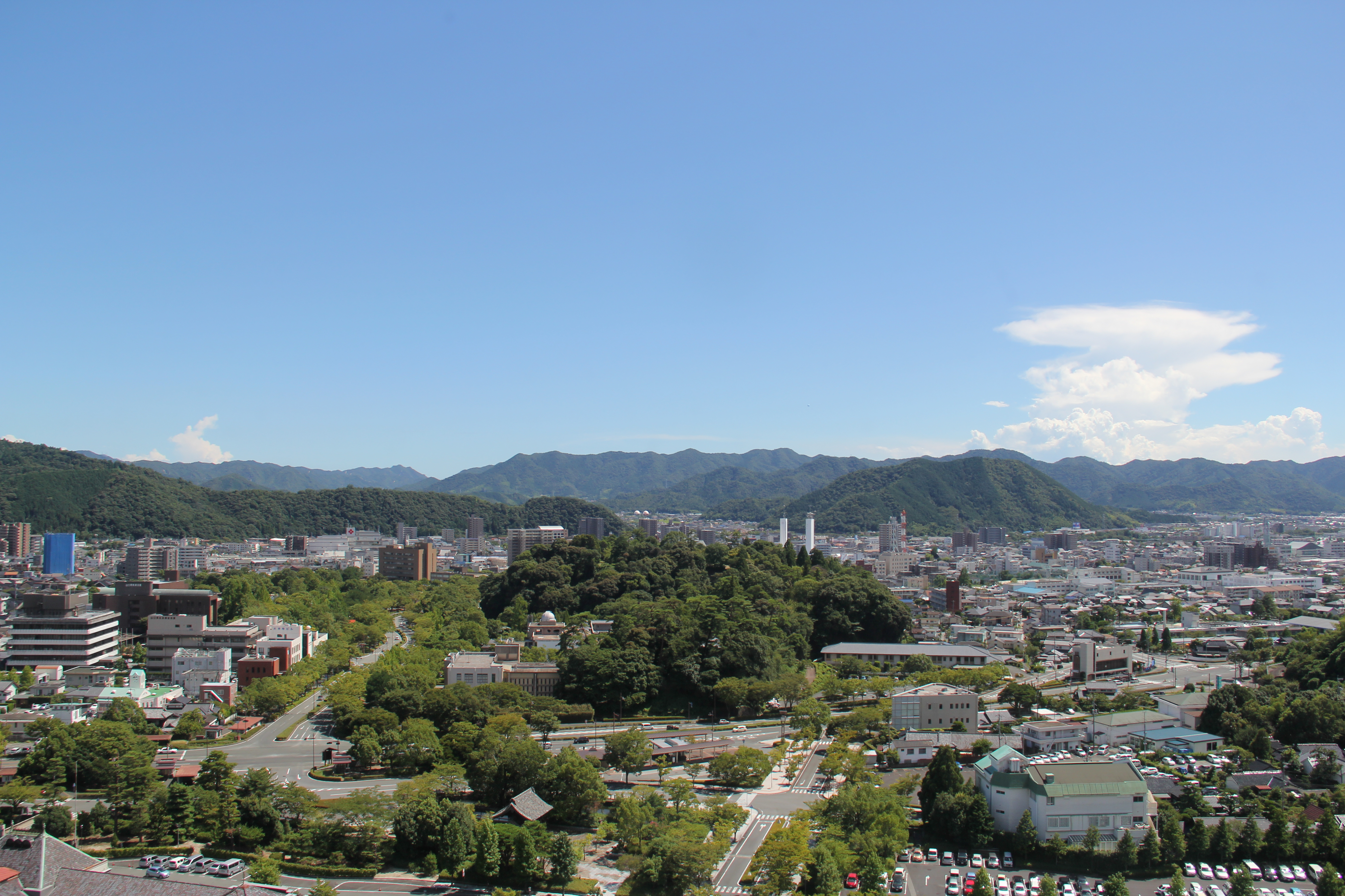 Skyline of Yamaguchi city, viewed from the prefectural government building. Canon EOS 60D